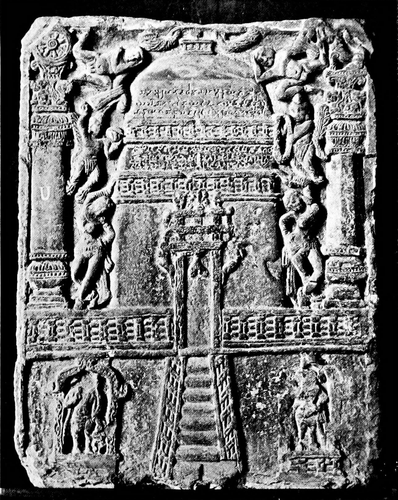 Holi relief, Mathura, c1st century CE